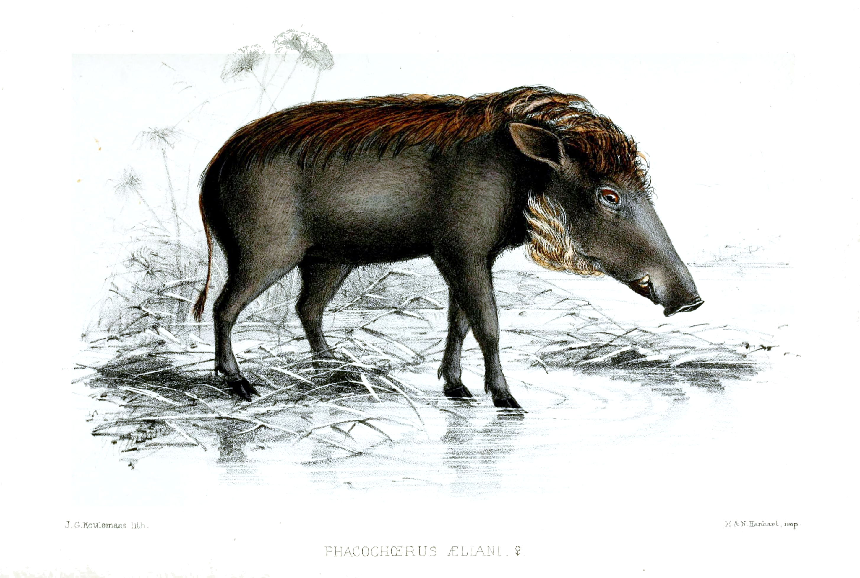 Eritrean Warthog, female